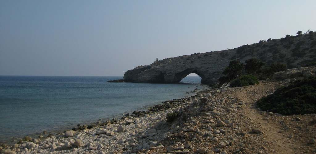 Kap Tripiti, Gavdos, Most southern point of Europe.